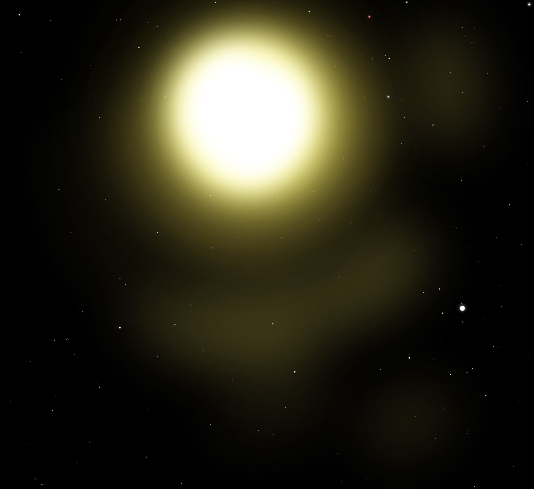 Delta Canis Majoris, otherwise known as 'Wezen', is an F class Supergiant of 215 solar radii. It has reached the end of its main sequence life, despite only being 10 million years old.